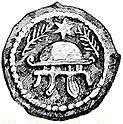 Coin of Herod the Great, bearing a legionary helmet on the obverse. From the 1901-1906 Jewish Encyclopedia, now in the public domain. Category:Jewish Encyclopedia images